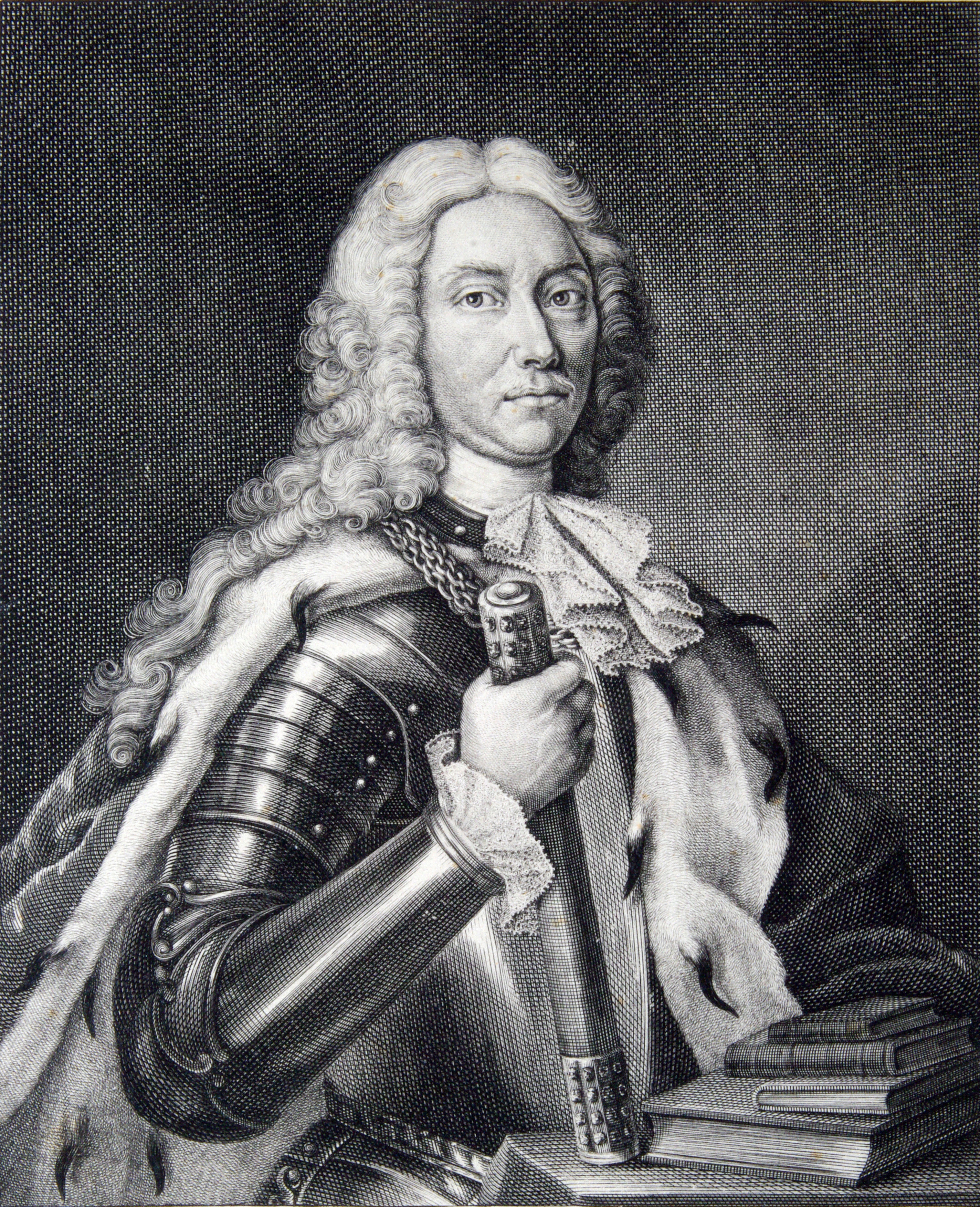 Portrait of Moldavian ruler Dimitrie Cantemir, from the first edition of his Latin work Descriptio Moldaviae